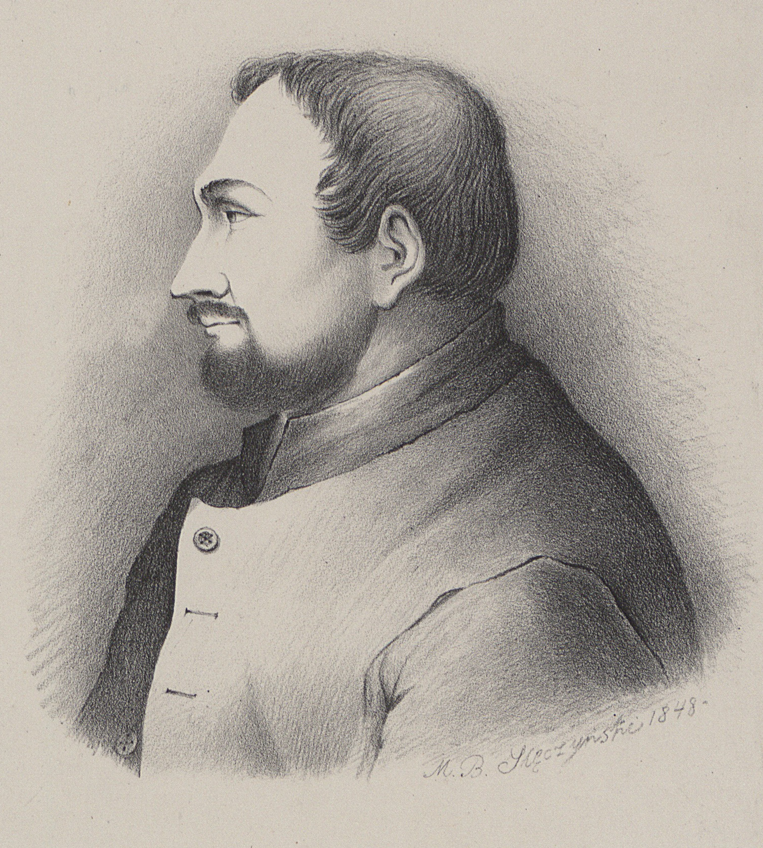 Jan Andrusikiewicz, 1848 r.